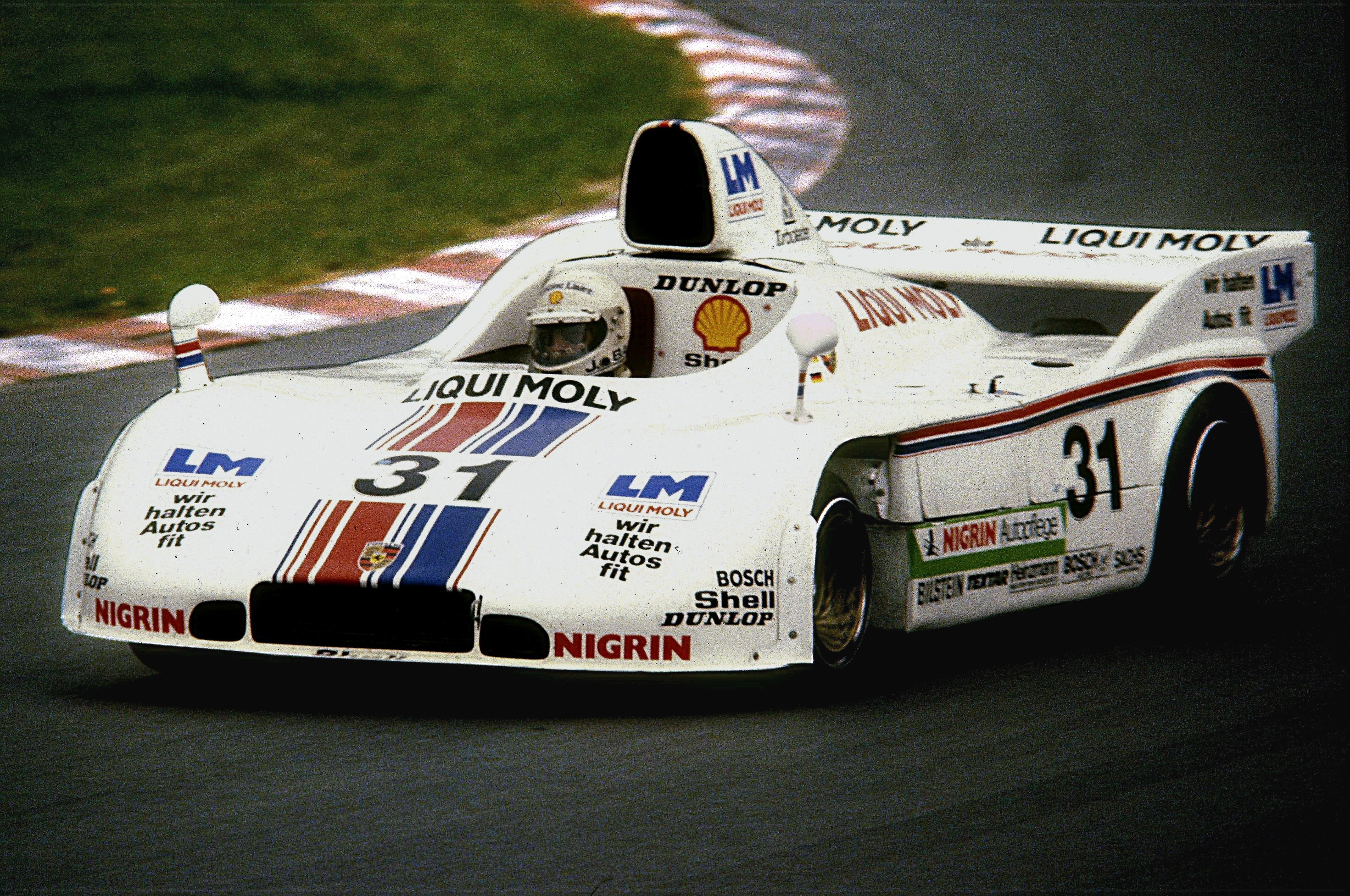 Porsche 908/03 turbocharged (Joest-Racing), driven by Jürgen Barth. The car is a modified 908 which is sometimes called 936 by mistake.